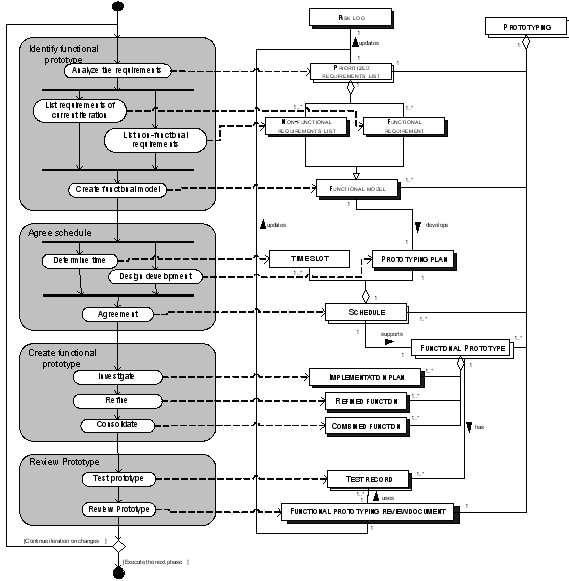 Process-data diagram of Functional Model Iteration phase of DSDM author: Senoaji Wijaya